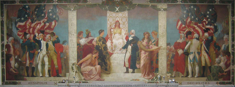 Mural painting of General George Washington's resignation as commander-in-chief of the Continental Army at Annapolis, Maryland on December 23, 1783. In the central panel, Washington is depicted laying his commission at the feet of Columbia, who is seated on her throne with a sword, cuirass and wearing a liberty cap. Opposite Washington is a female figure representing Maryland. Behind her the Goddess of War is seen sheathing her sword and Resistance to Oppression breaking her rod, while Prosperity bears a horn of plenty and Commerce, holds the caduceus. Seated near the throne is the figure of History. In the left panel are officers and troops presenting arms. In the right panel is a magistrate, an officer of the French and Revolutionary armies. (from MSA SC 5590)